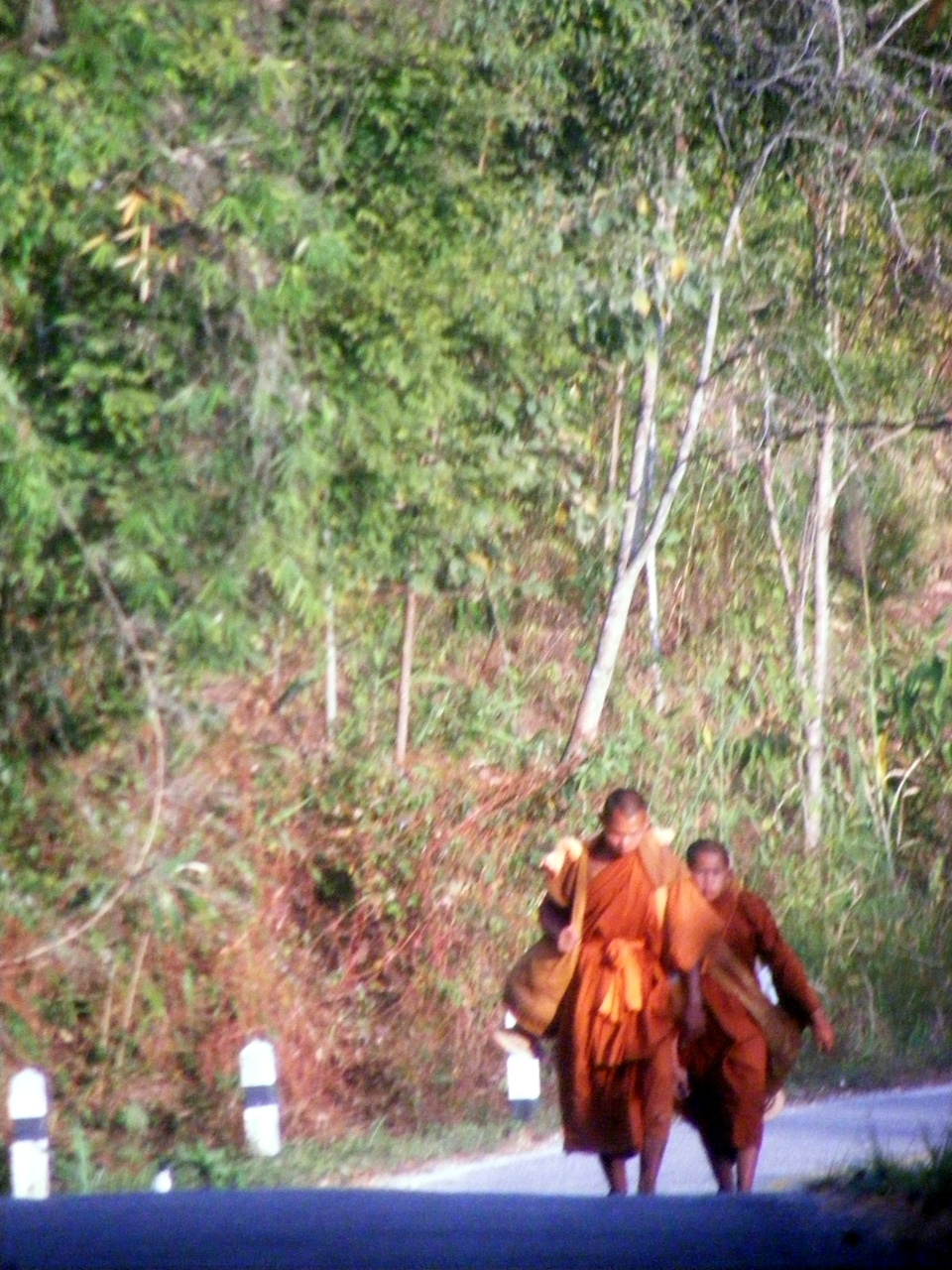 Thai monk the is pilgrimaging (ธุดงค์) follows ancient tradition for practices the dharma and help villagers Location: Wat Khung Taphao Ban Khung Taphao, Khung Taphao subdistrict, Mueang Uttaradit, Uttaradit Province, Thailand.